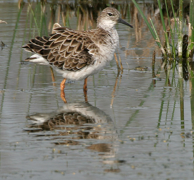 Ruff Philomachus pugnax near Hodal, Faridabad, Haryana, India.